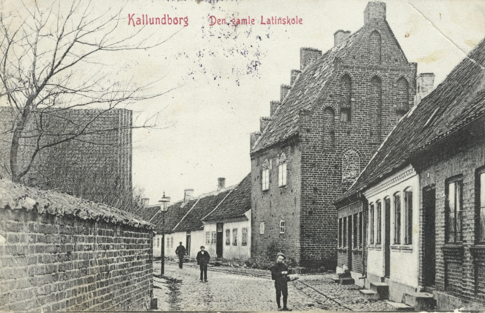 Old latin school in Kalundborg